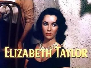 Cropped screenshot of Elizabeth Taylor from the trailer for the film The Last Time I Saw Paris